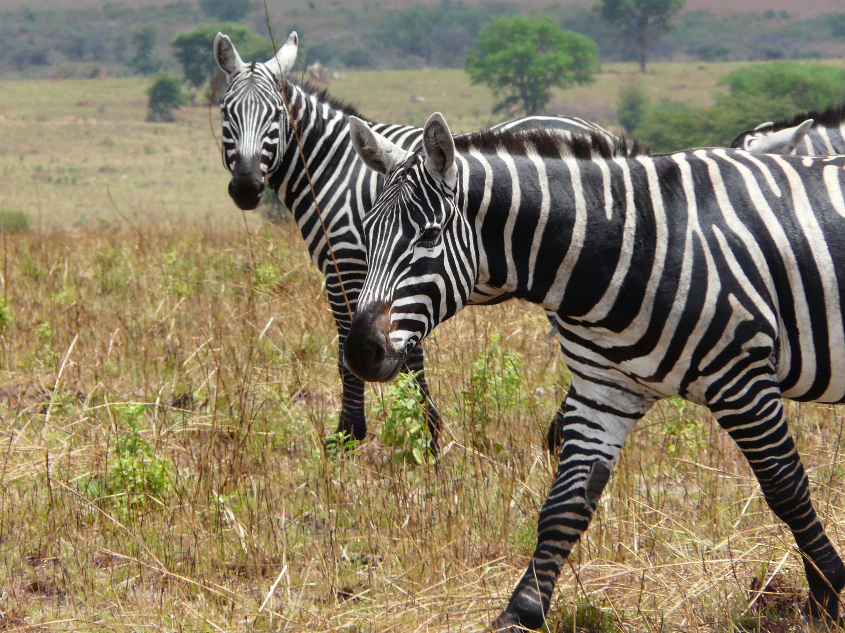 Maneless zebra (Equus quagga borensis) at Kidepo Valley National Park, Uganda